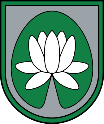 Coat of arms of Ādaži Municipality, Latvia.